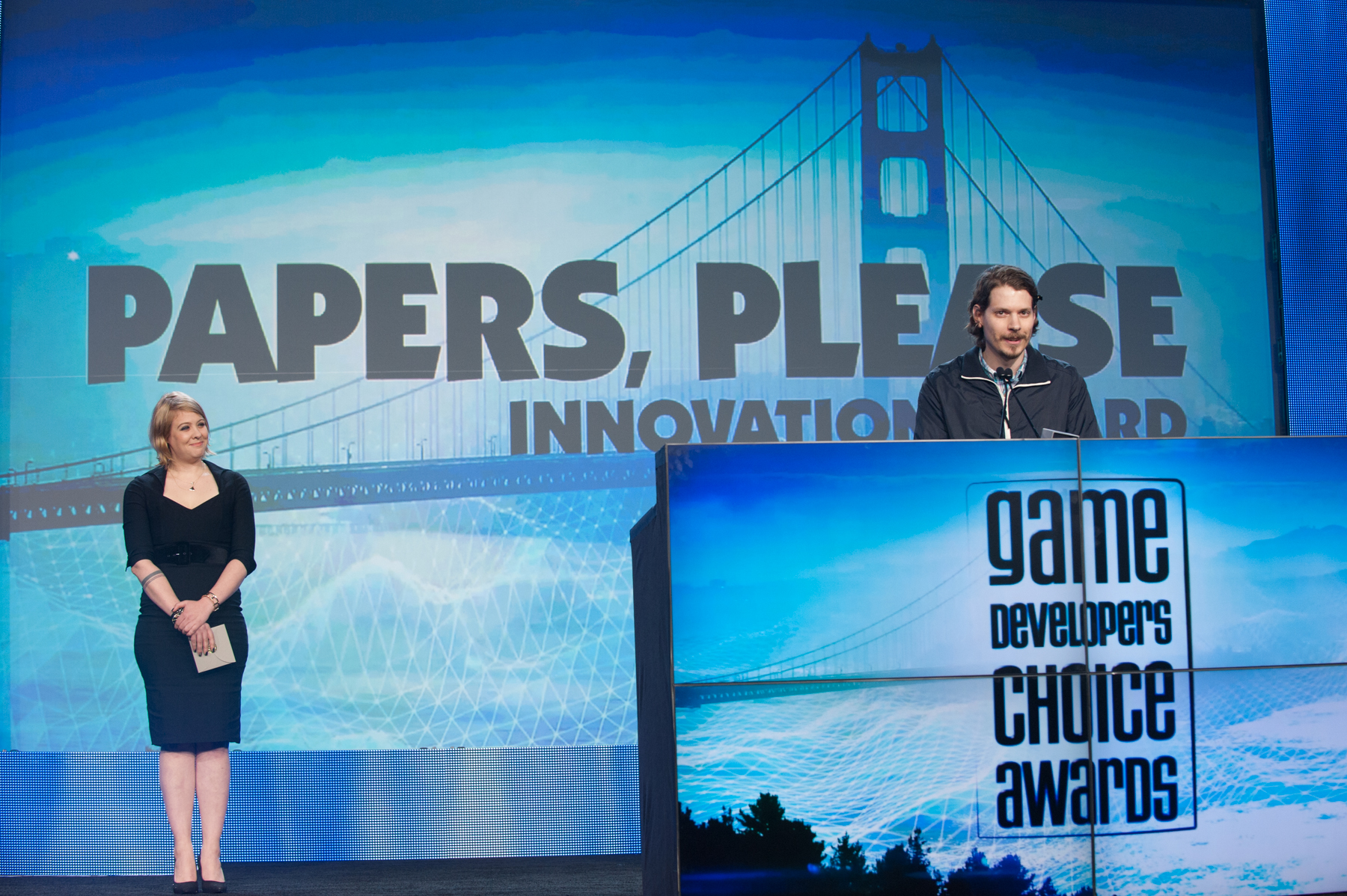 Lucas Pope accepting one of his awards at the 2014 Game Developer Conference's Independent Game Festival, March 19, 2014.